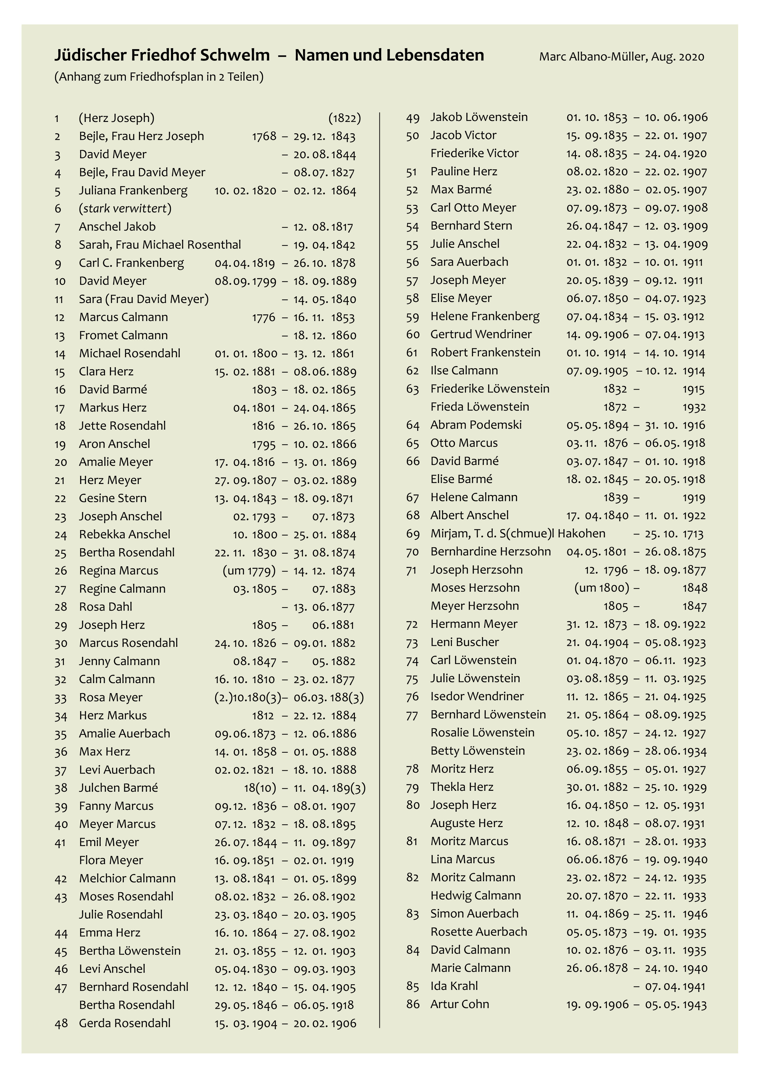 Jewish cemetery Schwelm - Site plan, Annexe (List of names and dates)